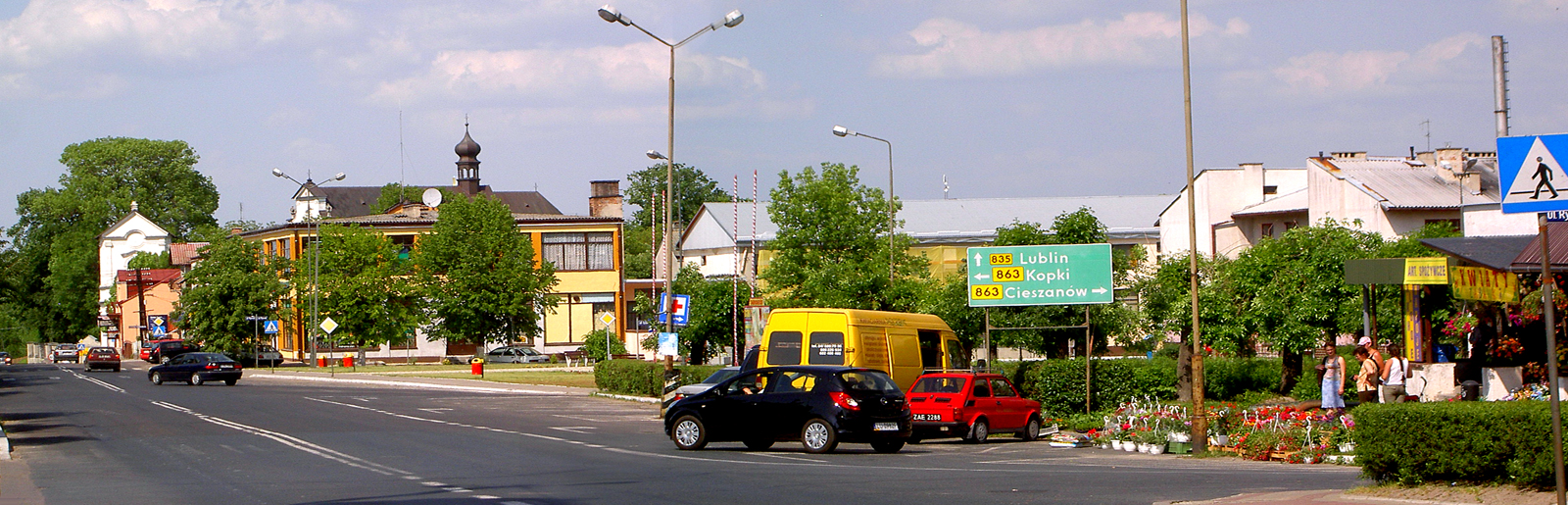 Tarnogród, Poland - Main Square North